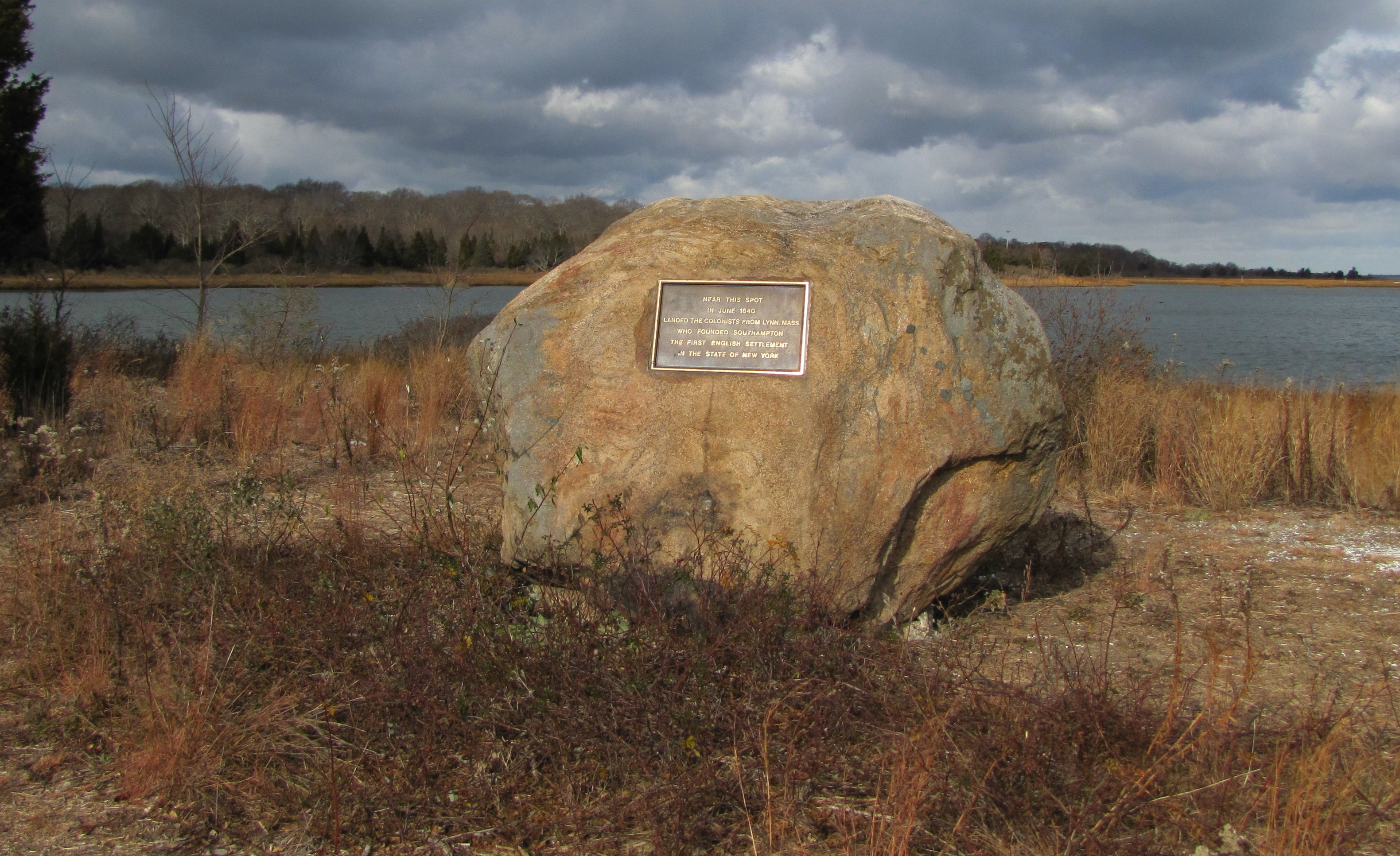 Stone near Conscience Point refuge which reads: "Near this spot in June 1640 landed the colonists from Lynn, Mass. who founded Southampton - the first English settlement in the state of New York." Credit: USFWS